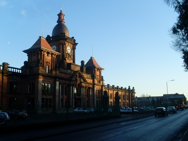 Loch Lomond Factory Outlets Housed in the former Argyll Motor Works is some cut-price shopping near the banks of Loch Lomond.